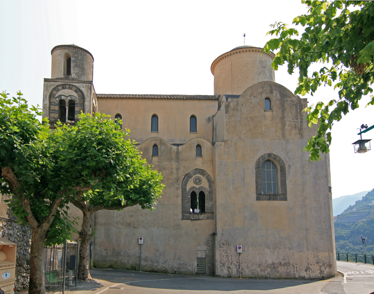 Santa Maria a Gradillo, Ravello, Italy.